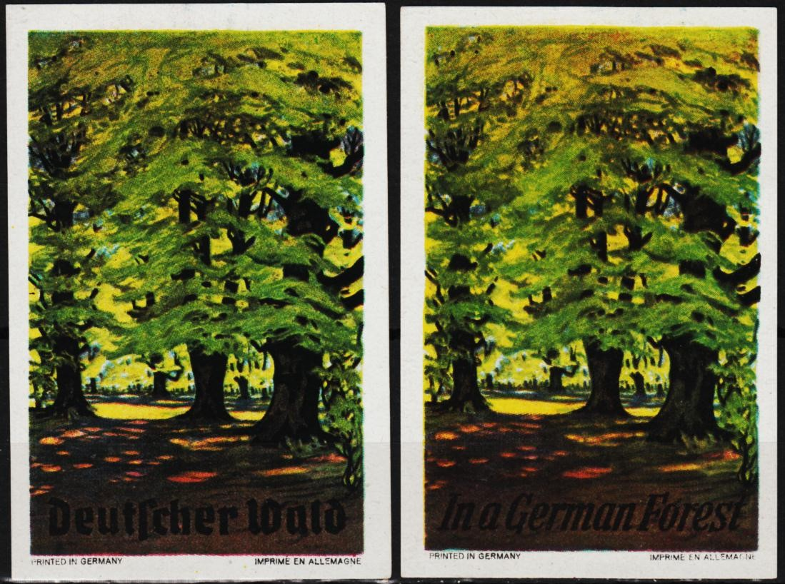 Poster stamp ...